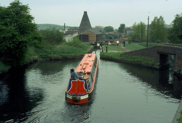 Stourbridge 16. Descending the locks approaching Stourbridge, with one of the few remaining bottle kilns on the left.